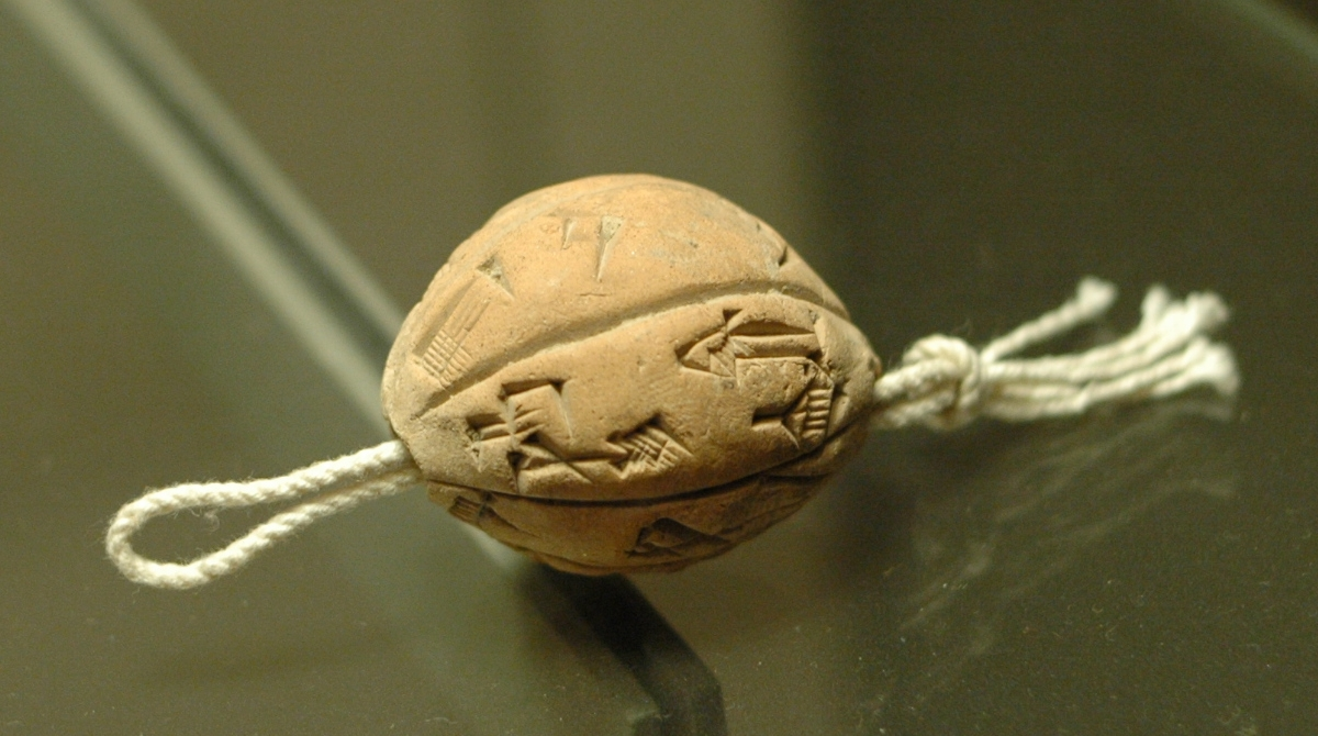 Officer ID badge, Lagash, Uruinimgina (Urukagina)'s reign (ca. 2350 BC). The inscription reads: "[assigned to the] bastion by the walls". Found in Telloh, ancient Girsu.